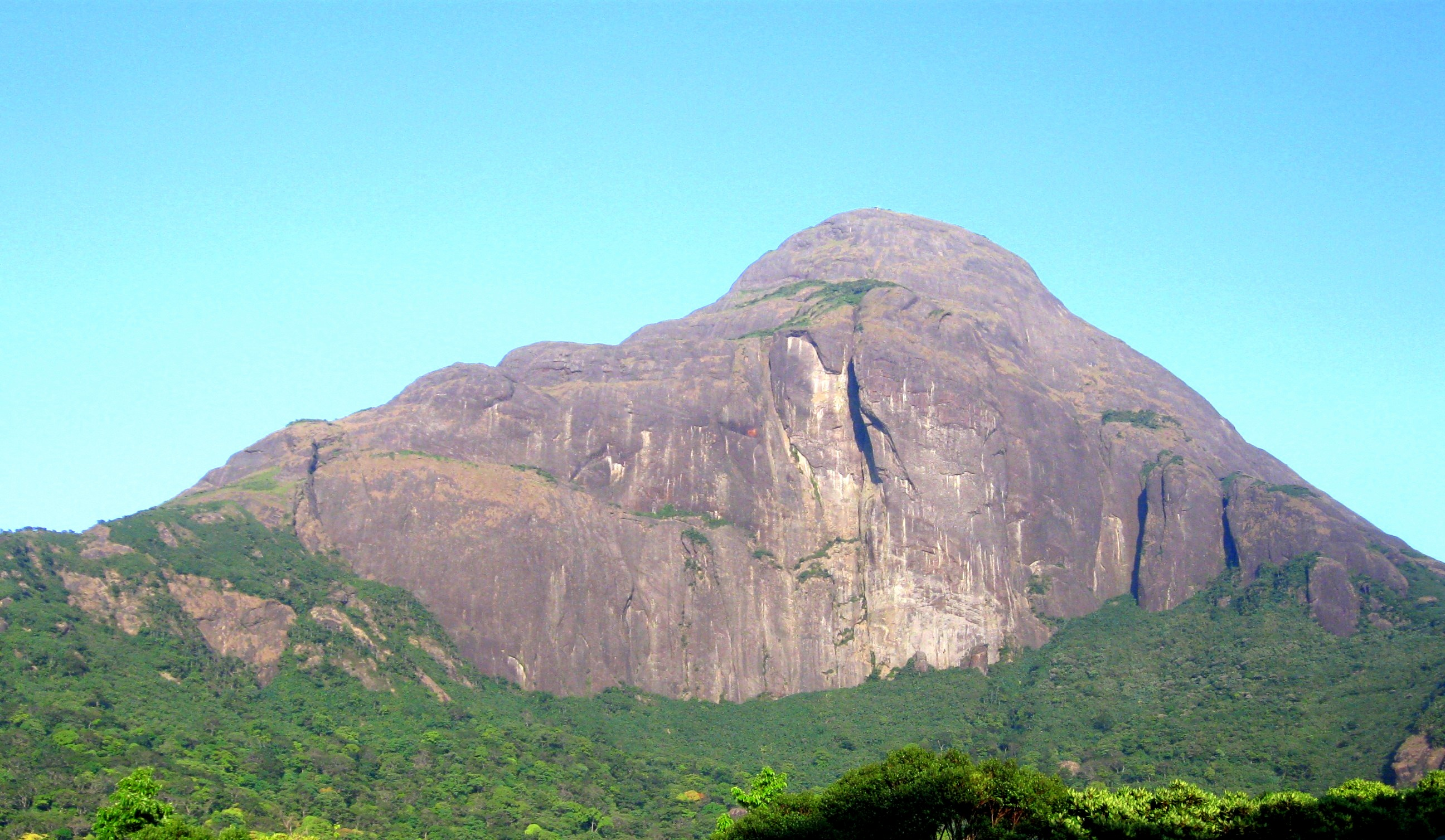 Agastyarkoodam peak- A view from base camp അഗസ്ത്യാർകൂടം